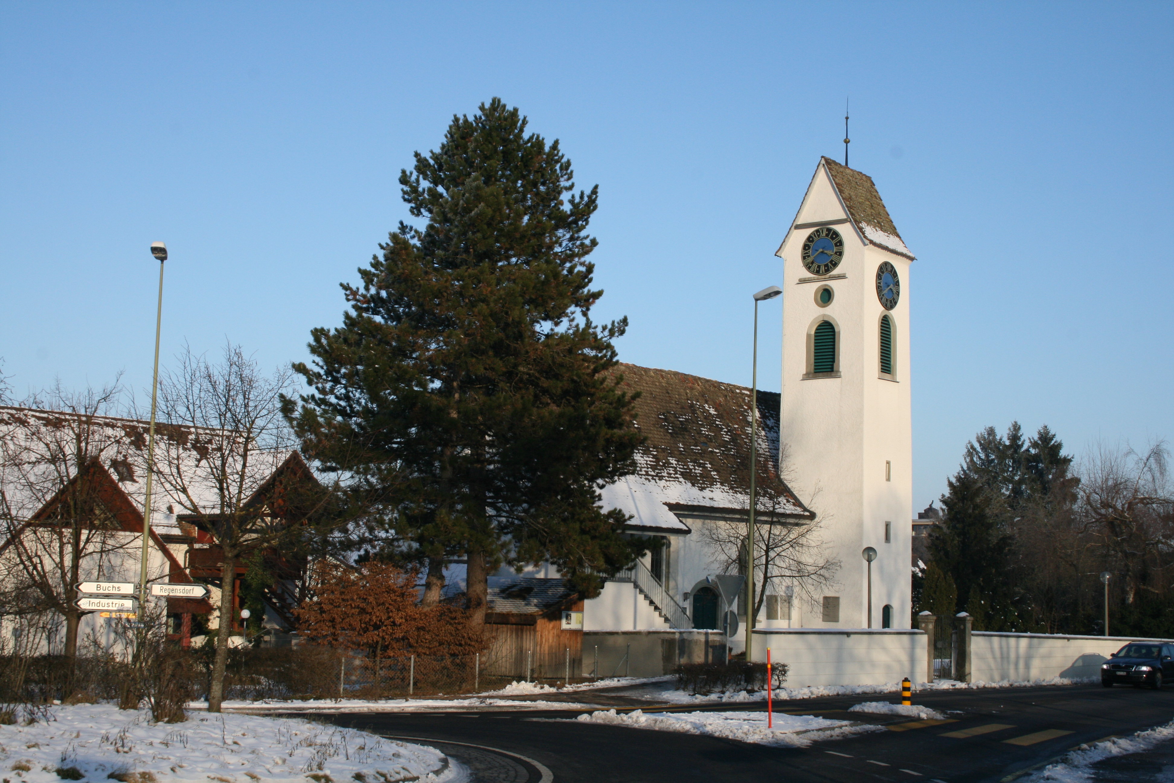 Ref. church of Dällikon ZH, Switzerland